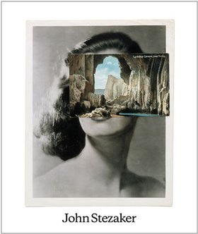 John Stezaker monograph, 2010